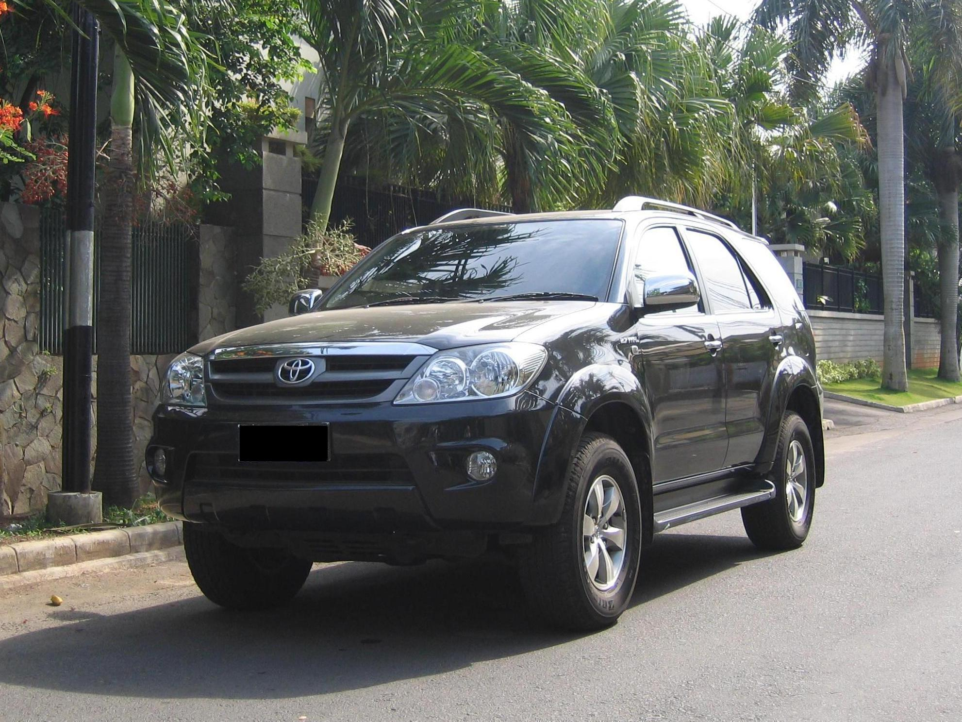 2011 Toyota Fortuner 2.7 G Luxury (TGN61) in Black Mica Metallic (colour code 209).